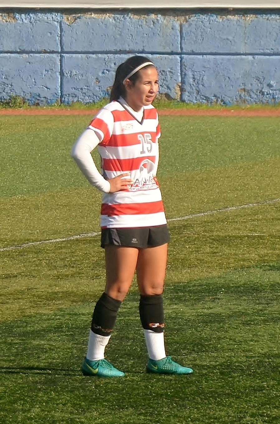 Bahar Güvenç playing for 1207 Antalya Döşemealtı Belediyespor in the away match against Kireçburnu Spor of the 2017-18 Turkish Women's First Football League.